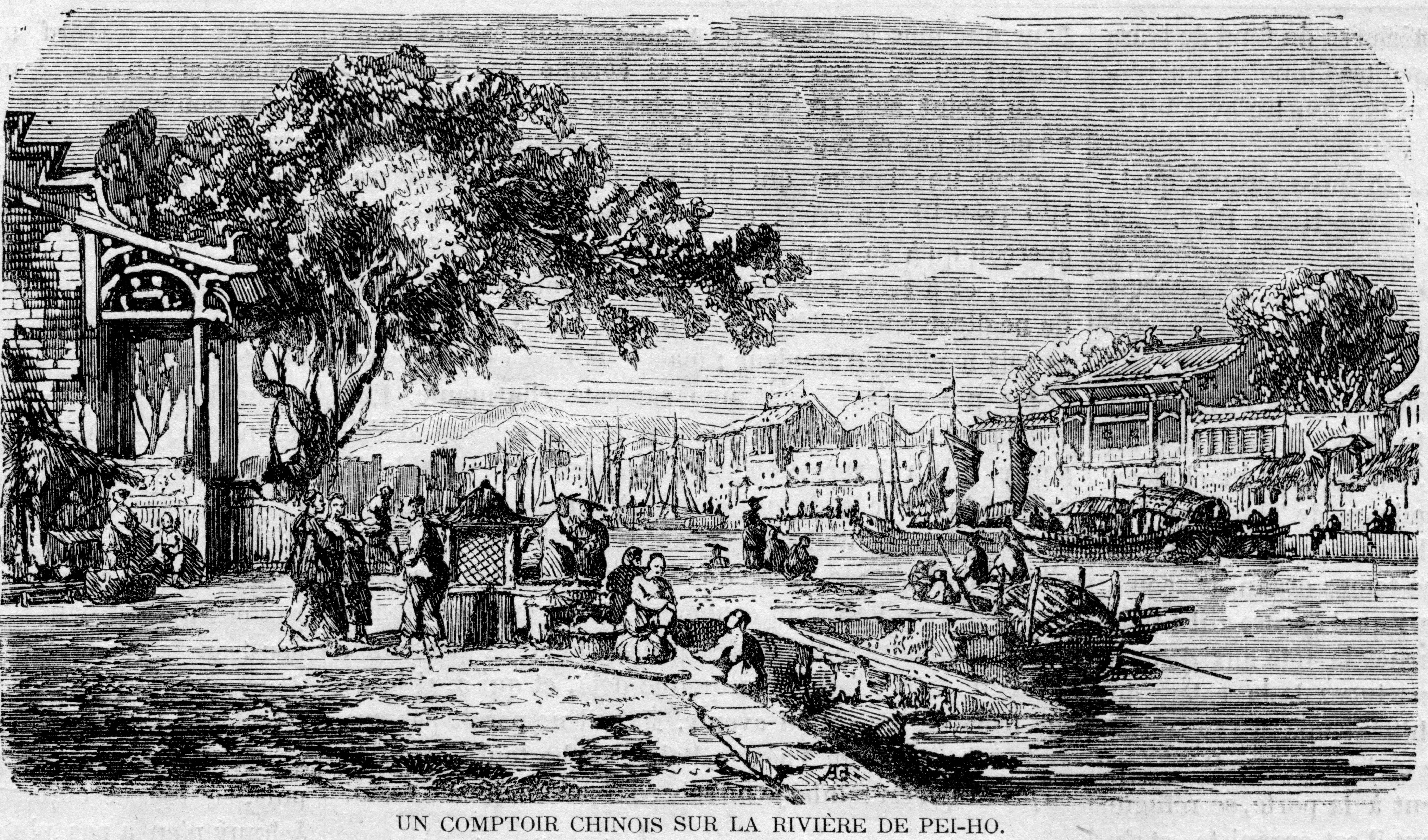 L'Illustration 1862 gravure Un comptoir chinois sur la rivière de Pei-Ho